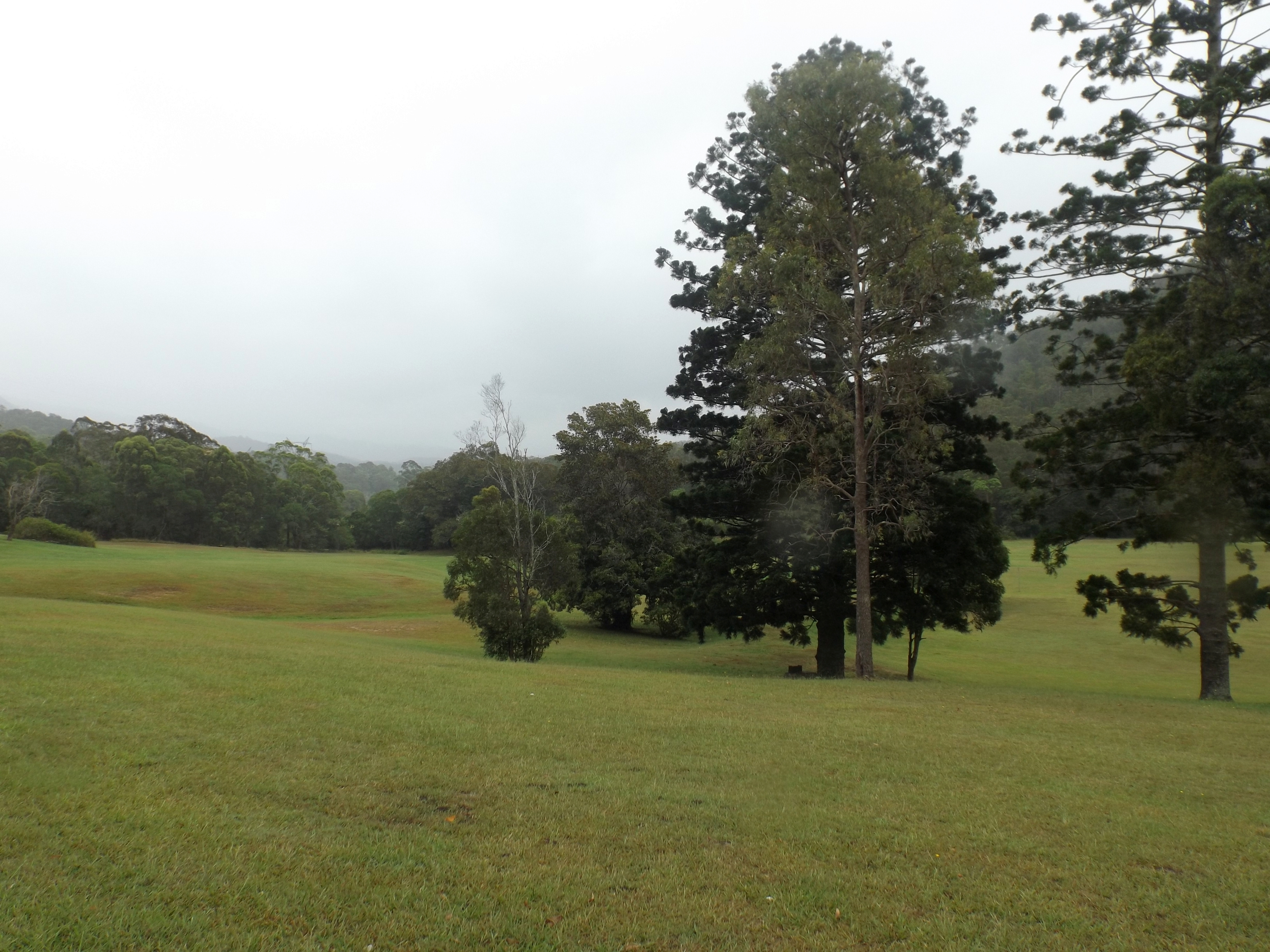 Photo of Little Clagiraba Reserve at Clagiraba, Gold Coast City, Queensland, Australia.